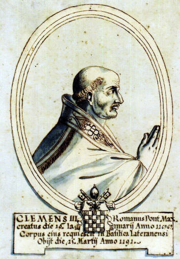 Sketch of Pope Clement III by 17th century artist